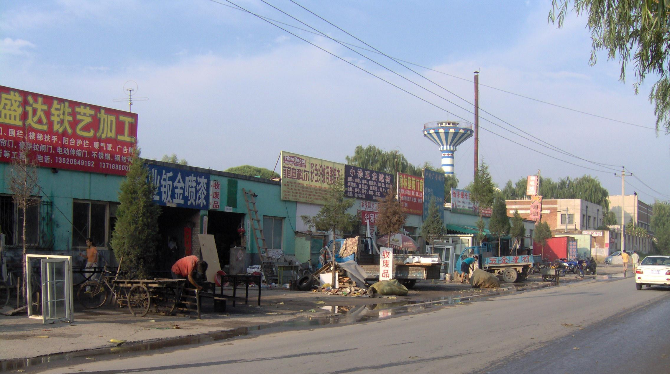 Buildings along Jiutai Road at the northern outskirts of Changping District, Beijing